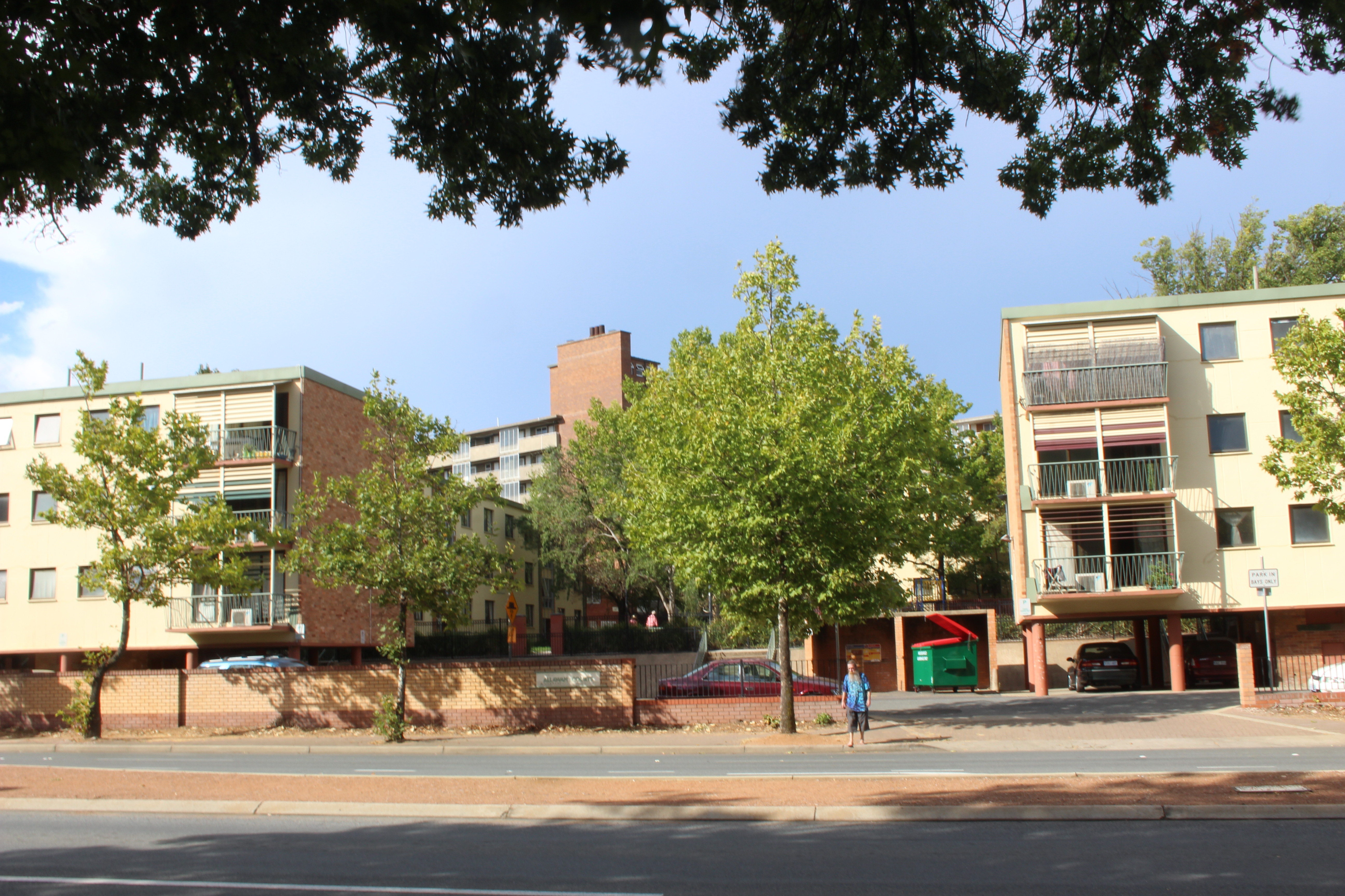 Allawah Court and Currong Apartments, Braddon